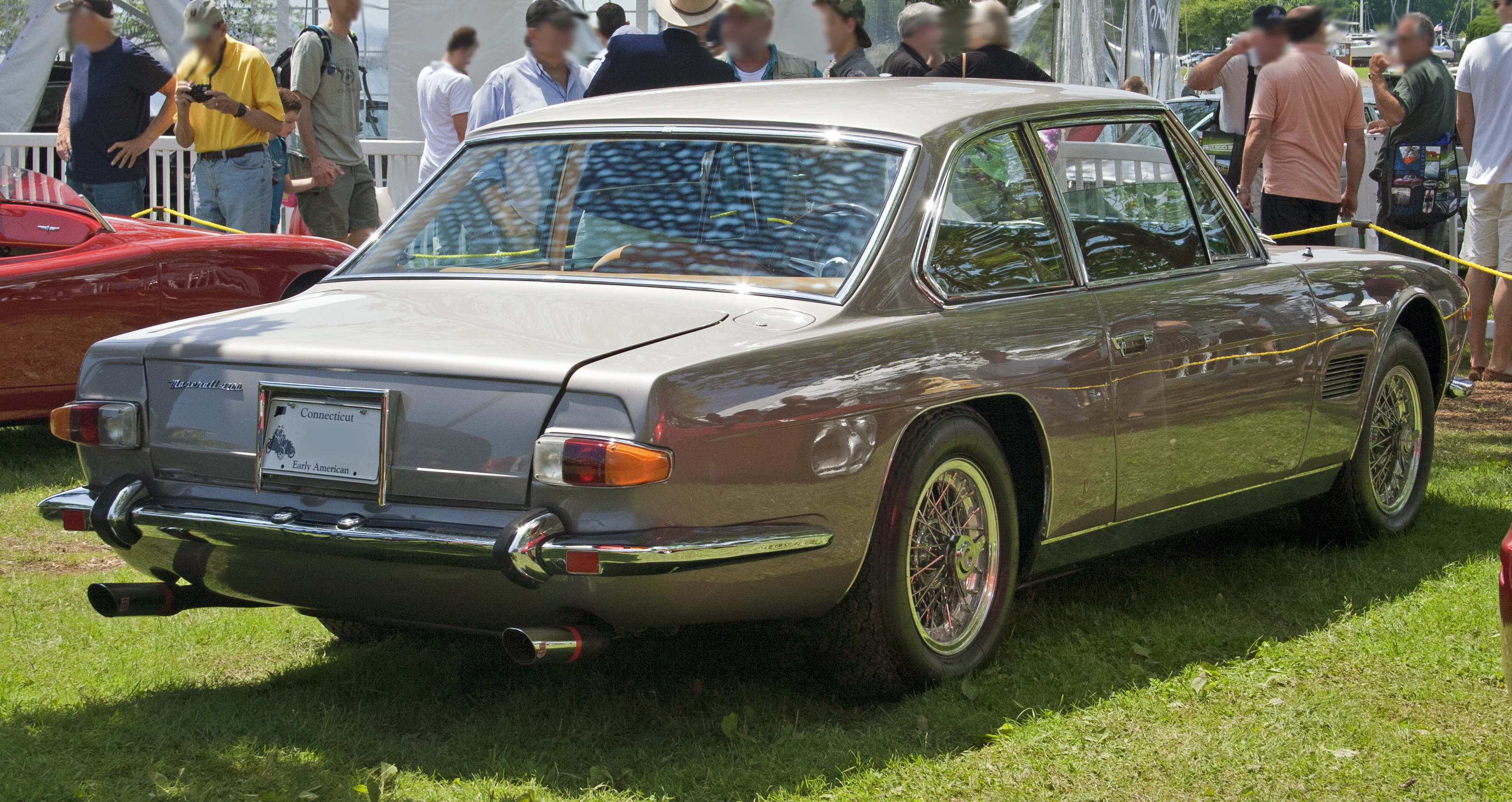 1967 Maserati Mexico coupé at the 2012 Greenwich Concours d'Elegance.